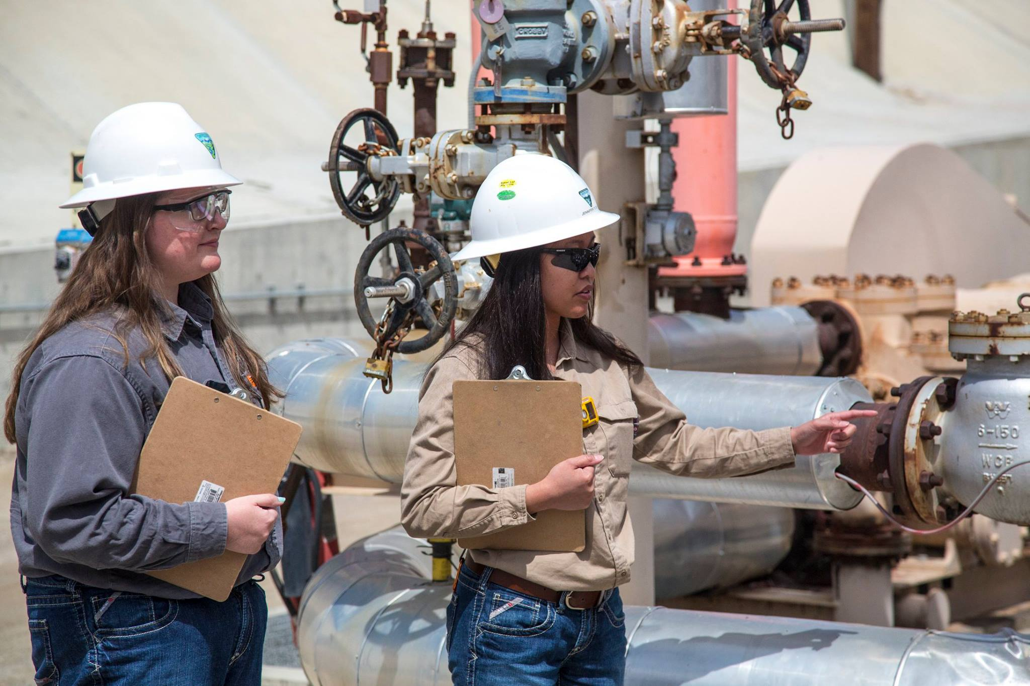 BLM has mineral estate in Kern River Field which is one of the top producing oil fields in the US. Produced water (water that is separated from oil) from the Chevron Kern River Field is treated, regularly tested and has been used for agricultural use by the Cawelo Water District since 1994. Water is treated using a filtration system that treats 500-thousand barrels of produced water everyday, benefiting 90 farms in the district where pistachios, almonds, grapes, and citrus crops are grown. Photo by Bob Wick, BLM.